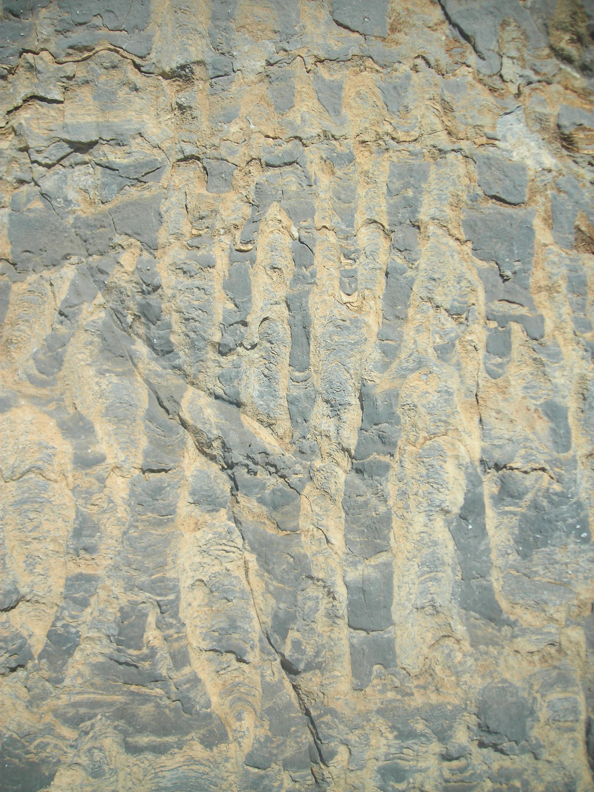 Stromatolite fossils in the Zebra River Canyon of Western Namibia, 12 December 2010